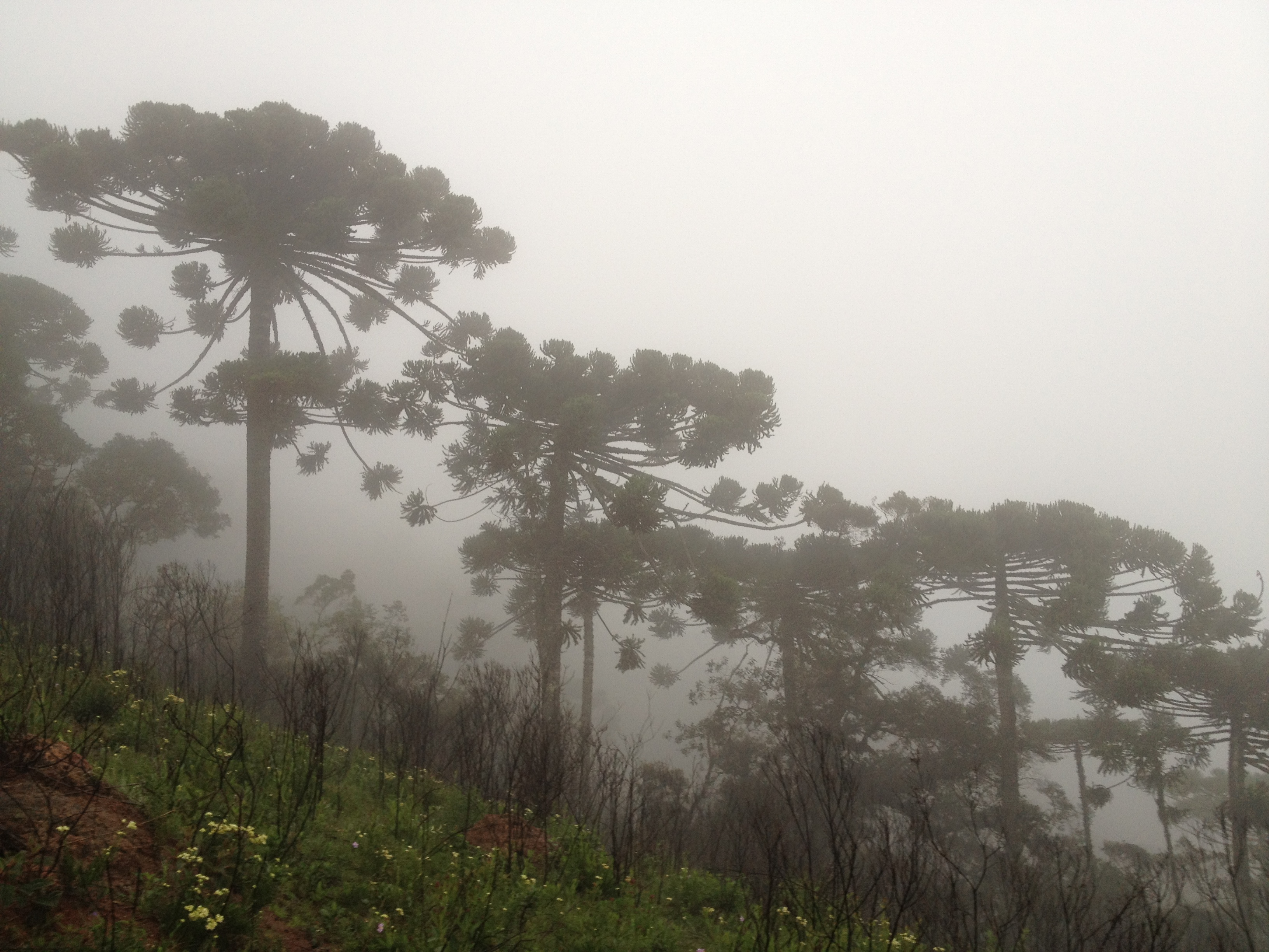 Araucaria angustifolia (Brazilian Araucaria), in Campos do Jordão, state of São Paulo, southeastern Brazil.